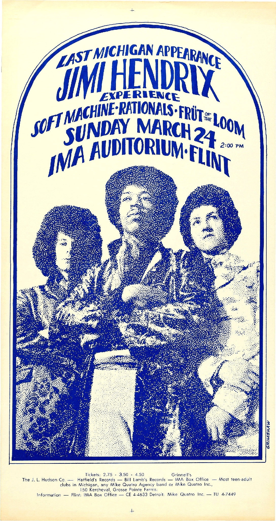 Poster for the March 24,, 1968 performance of The Jimi Hendrix Experience at the IMA Auditorium, Flint, Michigan. Although both sides of the poster are available and uploaded in the original upload, original copyrights in artwork for 1968 were checked. There were no listings for Gary Grimshaw, the artist who created the poster. The item has no copyright markings on it as can be seen in the links above. At bottom right is Country of origin USA.